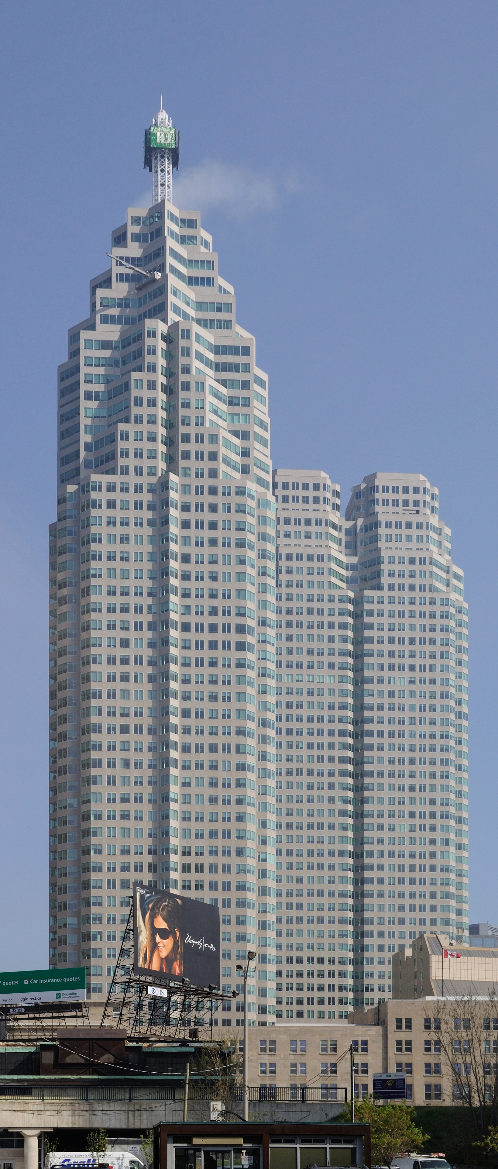 Toronto: TD Canada Trust Tower